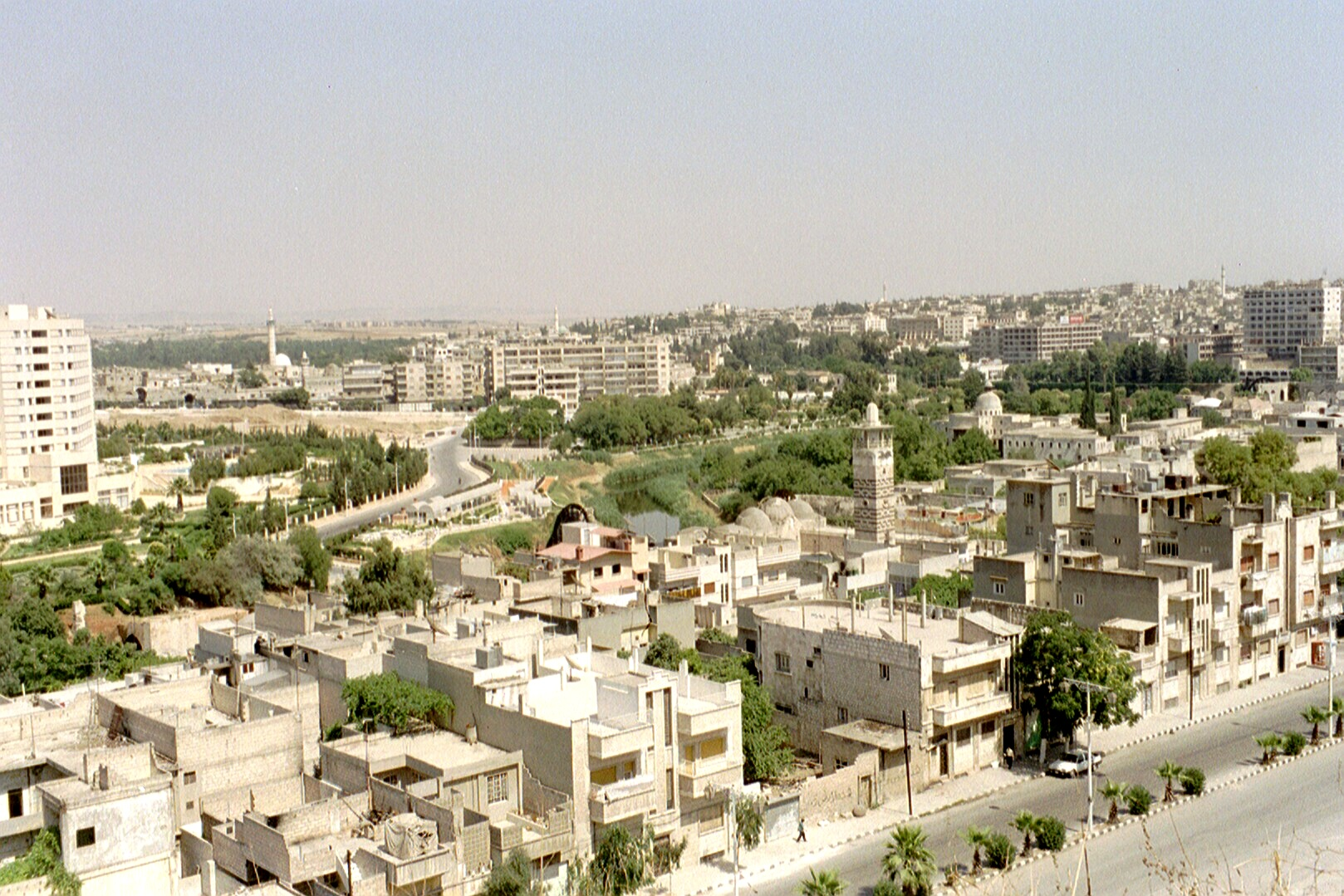 Picture taken from the top of the Citadel in Hama, Syria. Picture taken by me in June, 2001, with an automatic Olympus mju:zoom140 camera.